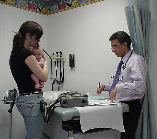 Hannah was at home and Grandmommy went with Amy to the pediatrician's visit. That grey thing on the examining table is the heart/lung monitoring system that the twins wore until they were almost a year old. They only had to wear it to bed after nine months. Hooray! Twins unplugged!